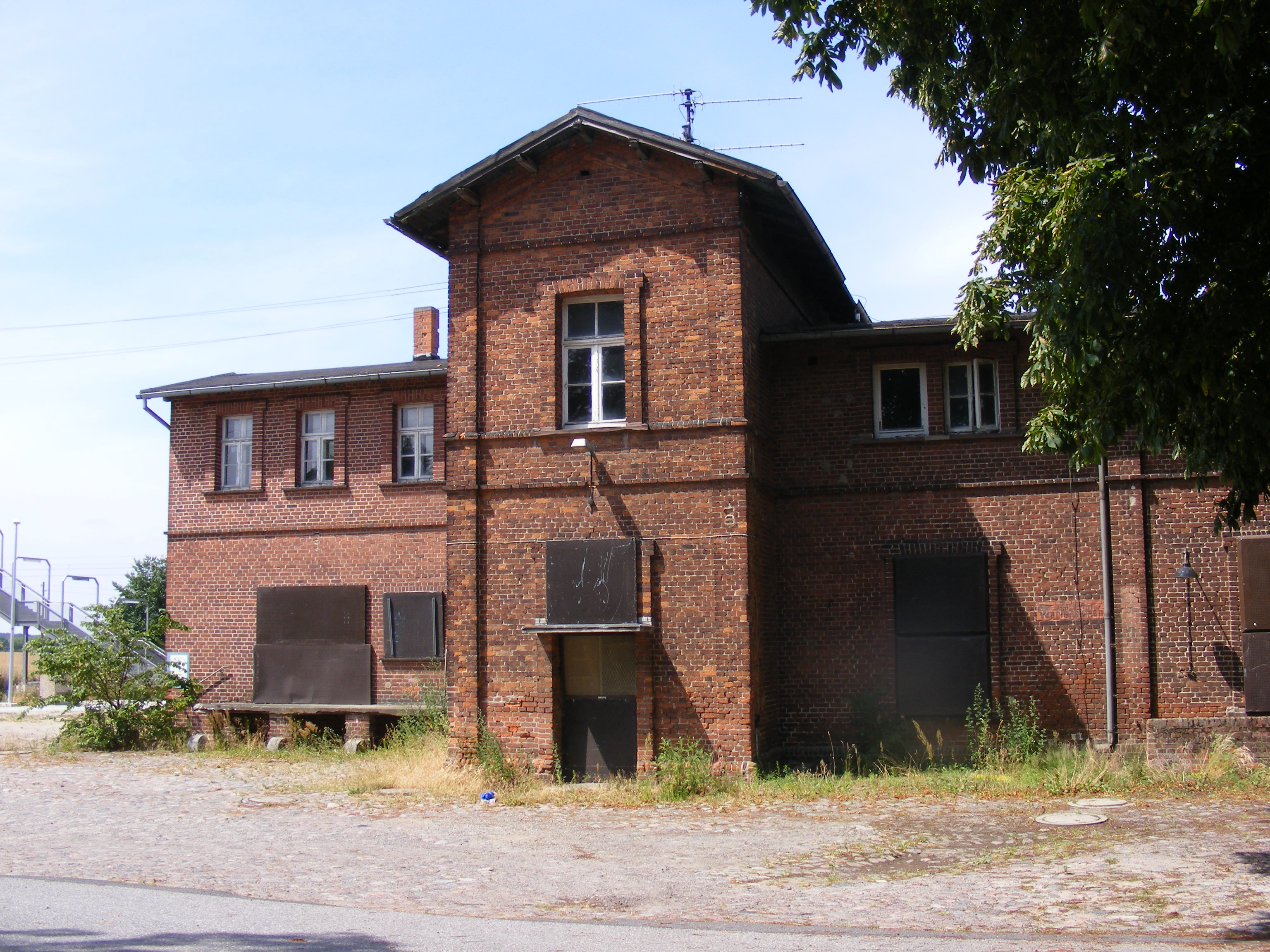 Railway station Plaaz, Mecklenburg-Vorpommern.